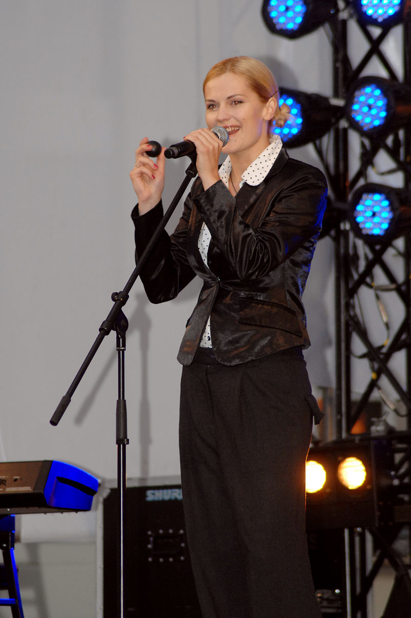 Dalia Grybauskaitė Presidential inauguration, Lithuania, 2009-07-12 Jurga Šeduikytė